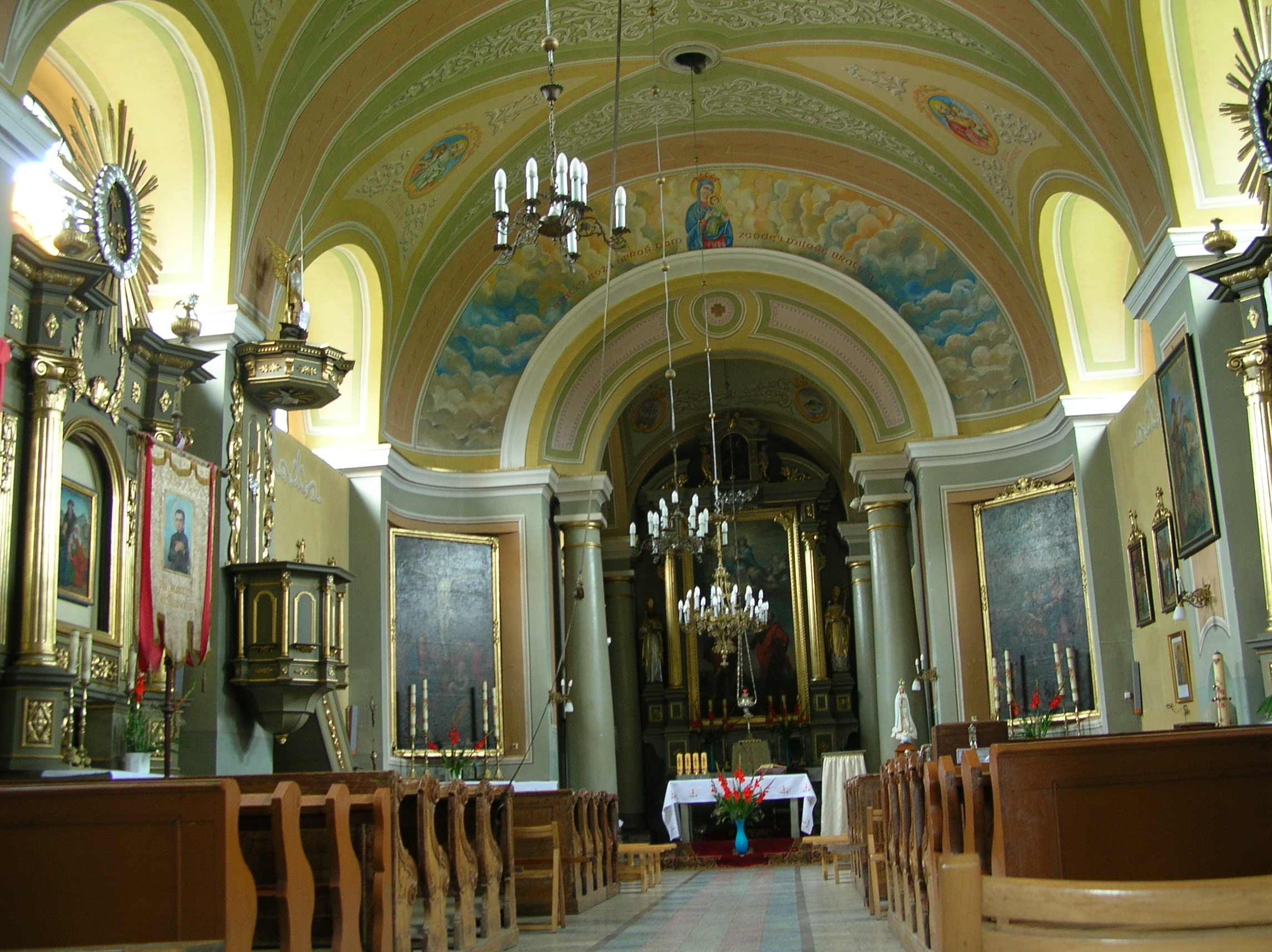 Church at Jangrot